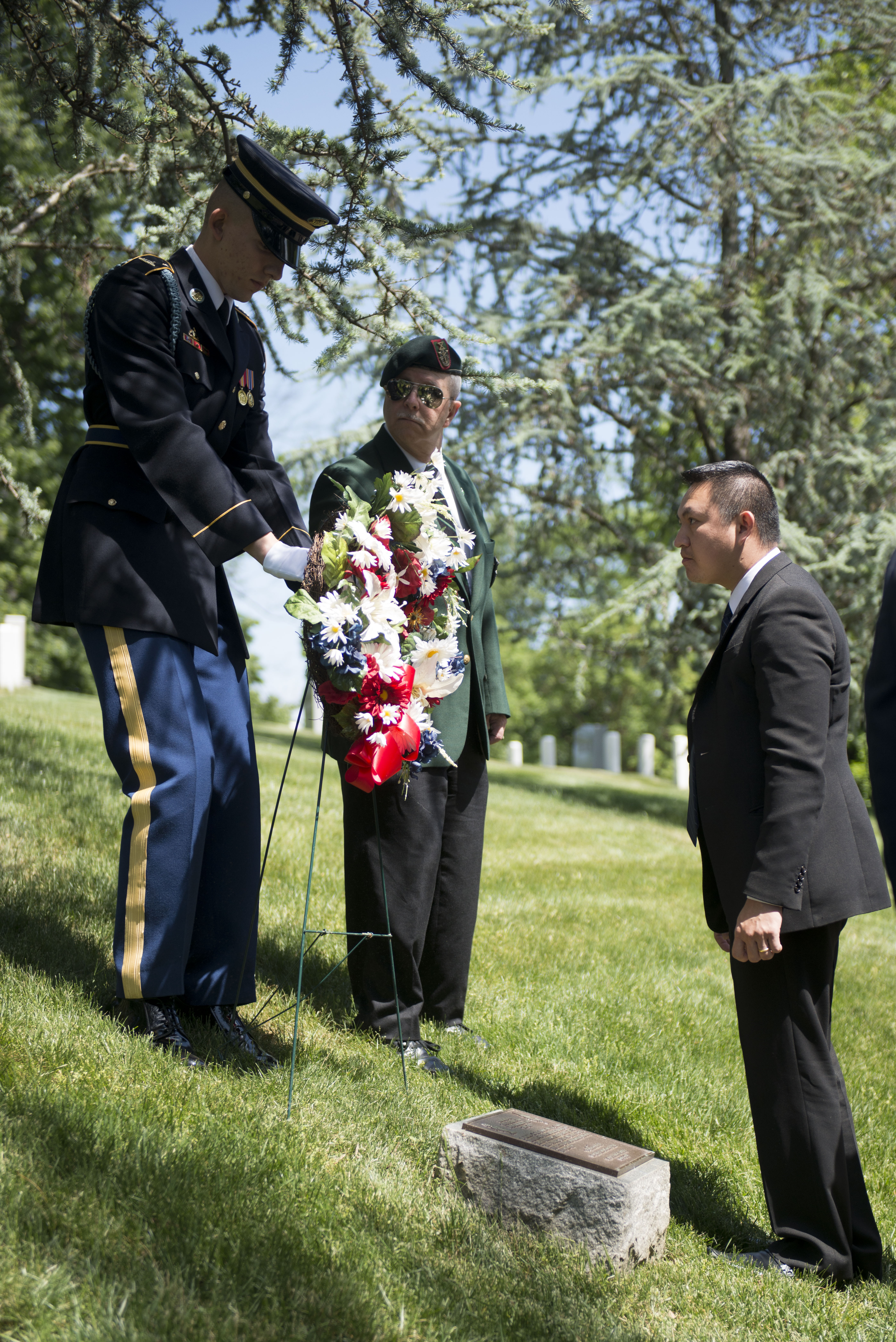 Attendees of the ceremony honoring Hmong and Lao combat veterans and their American advisors at the memorial tree and plaque in Arlington National Cemetery, May 15, 2015, lay a wreath at the plaque. The plaque reads, in part, “In memory of the Hmong and Lao combat veterans and their American advisors who served freedom’s caused in Southeast Asia. Their patriotic valor and loyalty in the defense of liberty and democracy will never be forgotten.” (U.S. Army photo by Rachel Larue/released)